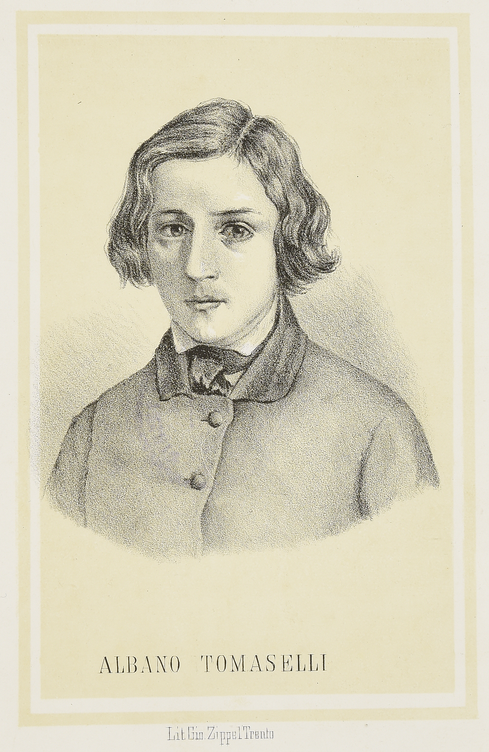 Depicted person: Albano Tomaselli – painter from Trentino